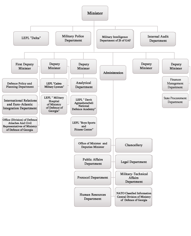 Georgia Ministry of Defense structure (2012)